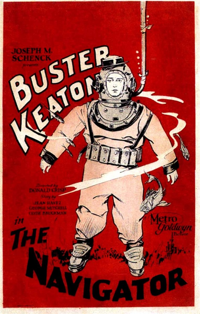 The Navigator film poster